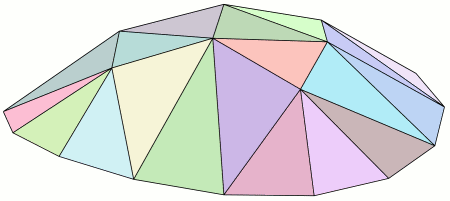 Finite element triangulation.